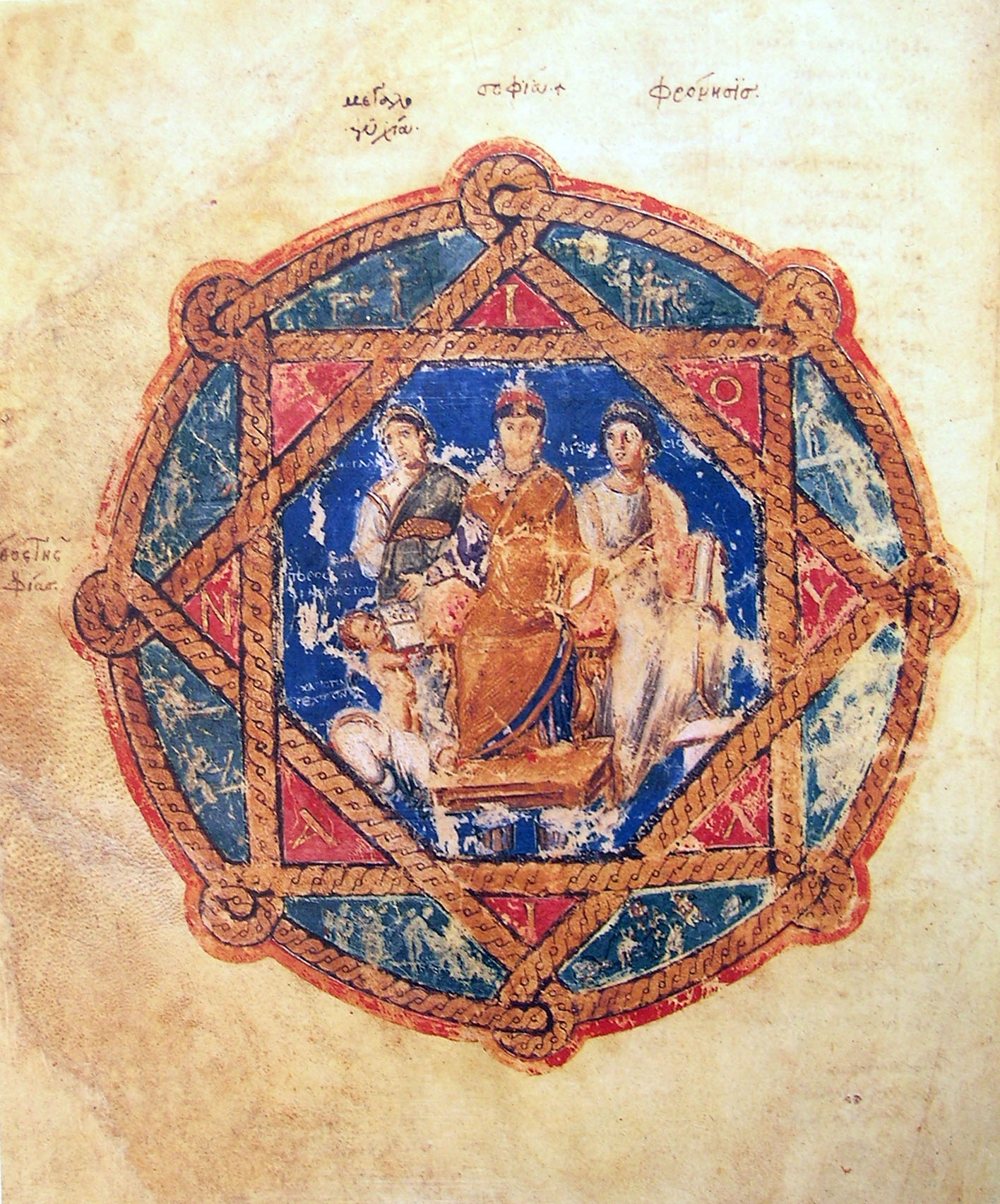 Portrait of Anicia Juliana as donor in an enluminated copy of the Dioskorides, preserved in Vienna. ca. 512. Anicia Juliana is seated between two personifications, Magnanimity and Prudence.